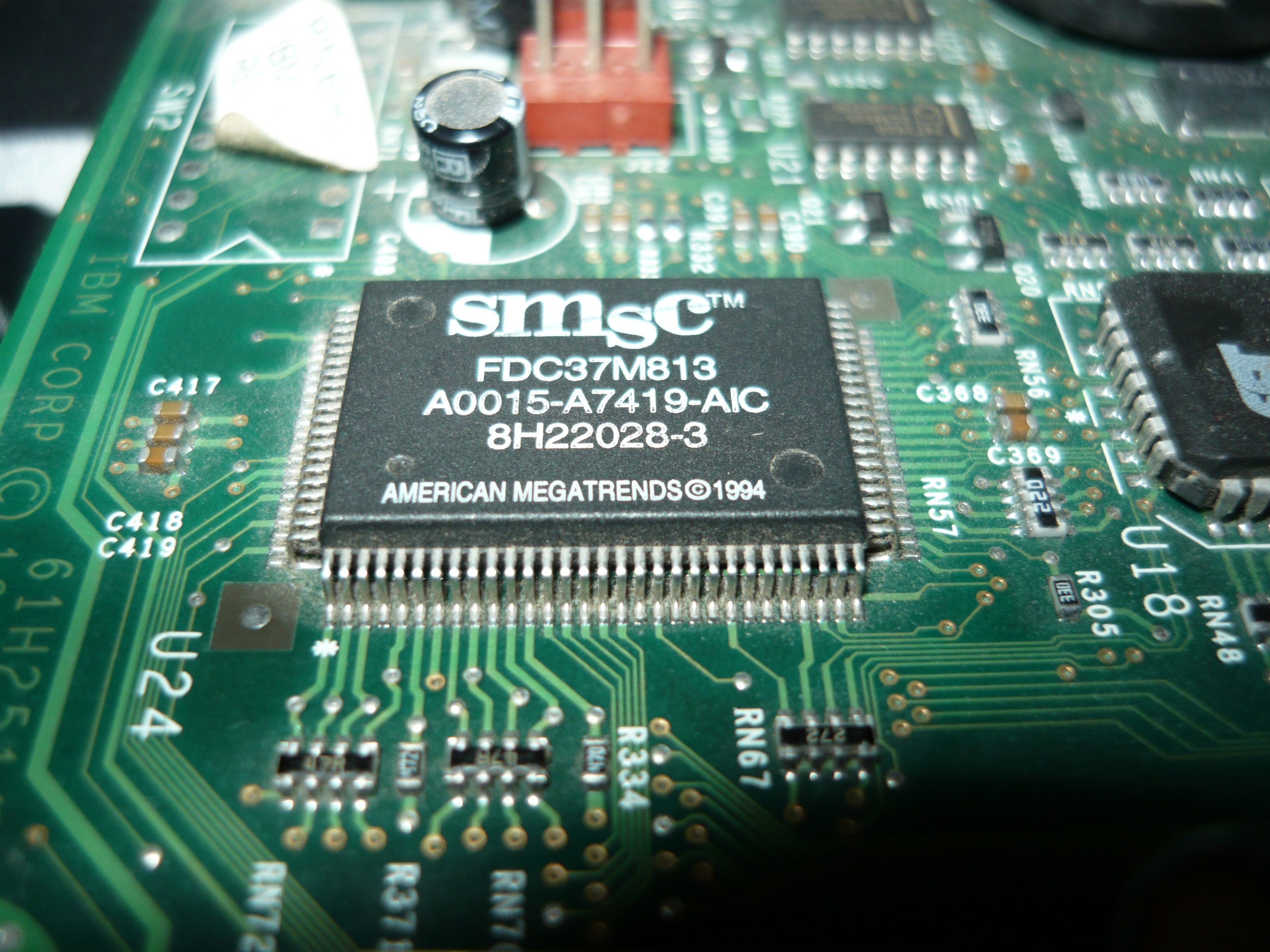 Smsc superIO on IBM motherboard